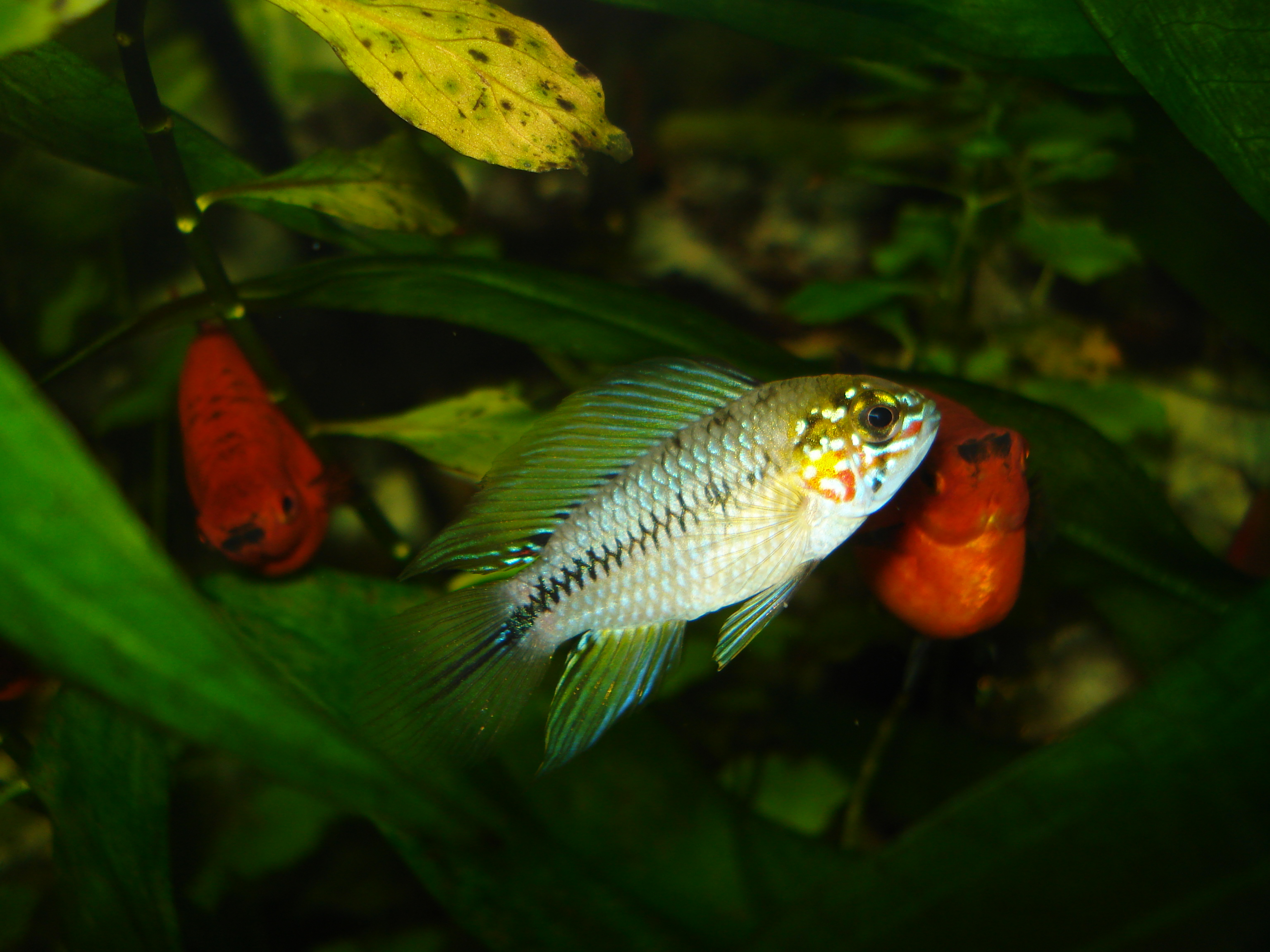 A male opal-coloured umbrella cichlid (Apistogramma borelli "opal") and two southern platyfish (Xiphophorus maculatus)